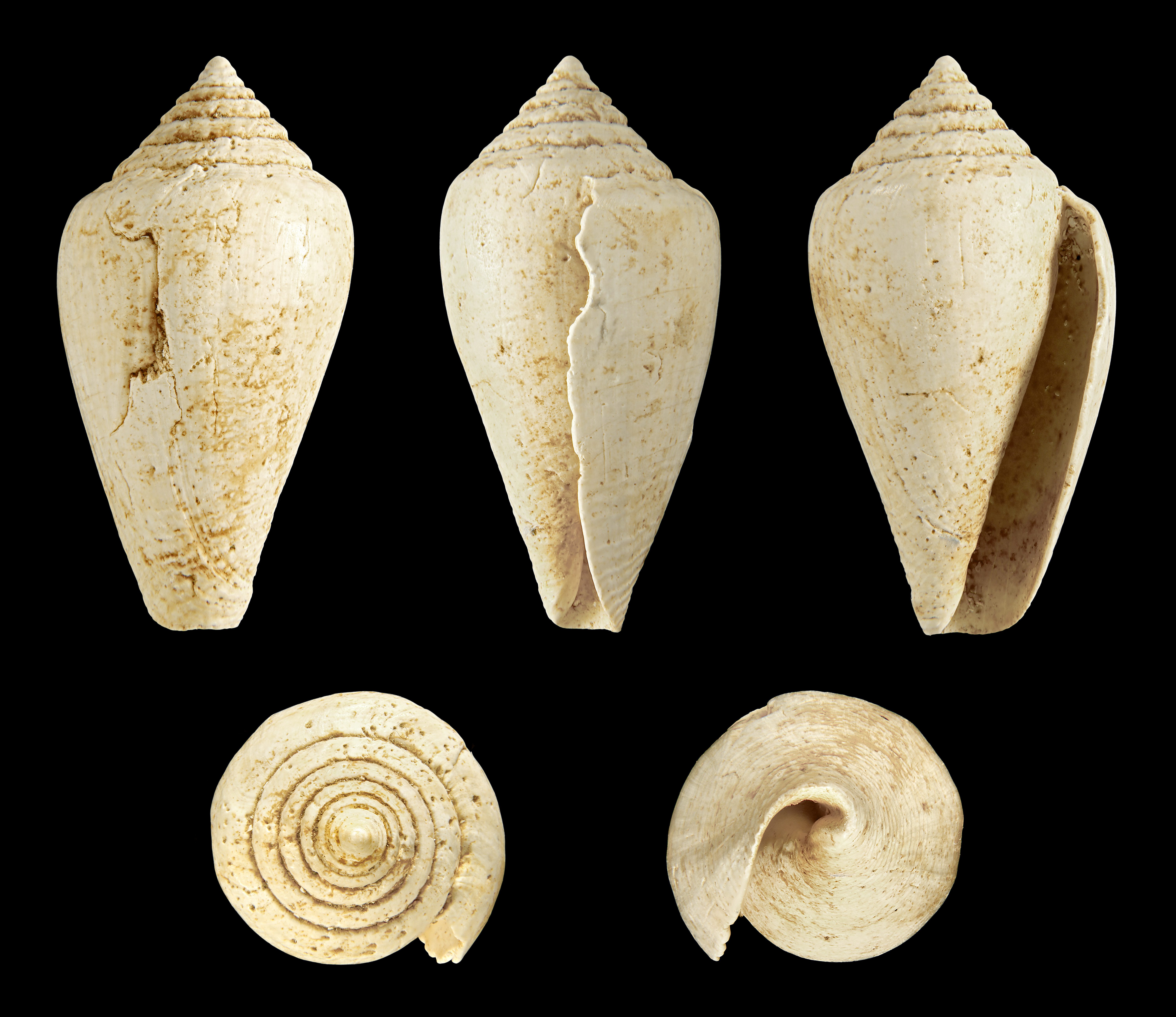 Length 2.2 cm; Miocene, Burdigalian, Graves near Bordeaux, France; Shell of own collection, therefore not geocoded. Dorsal, lateral (right side), ventral, back, and front view.